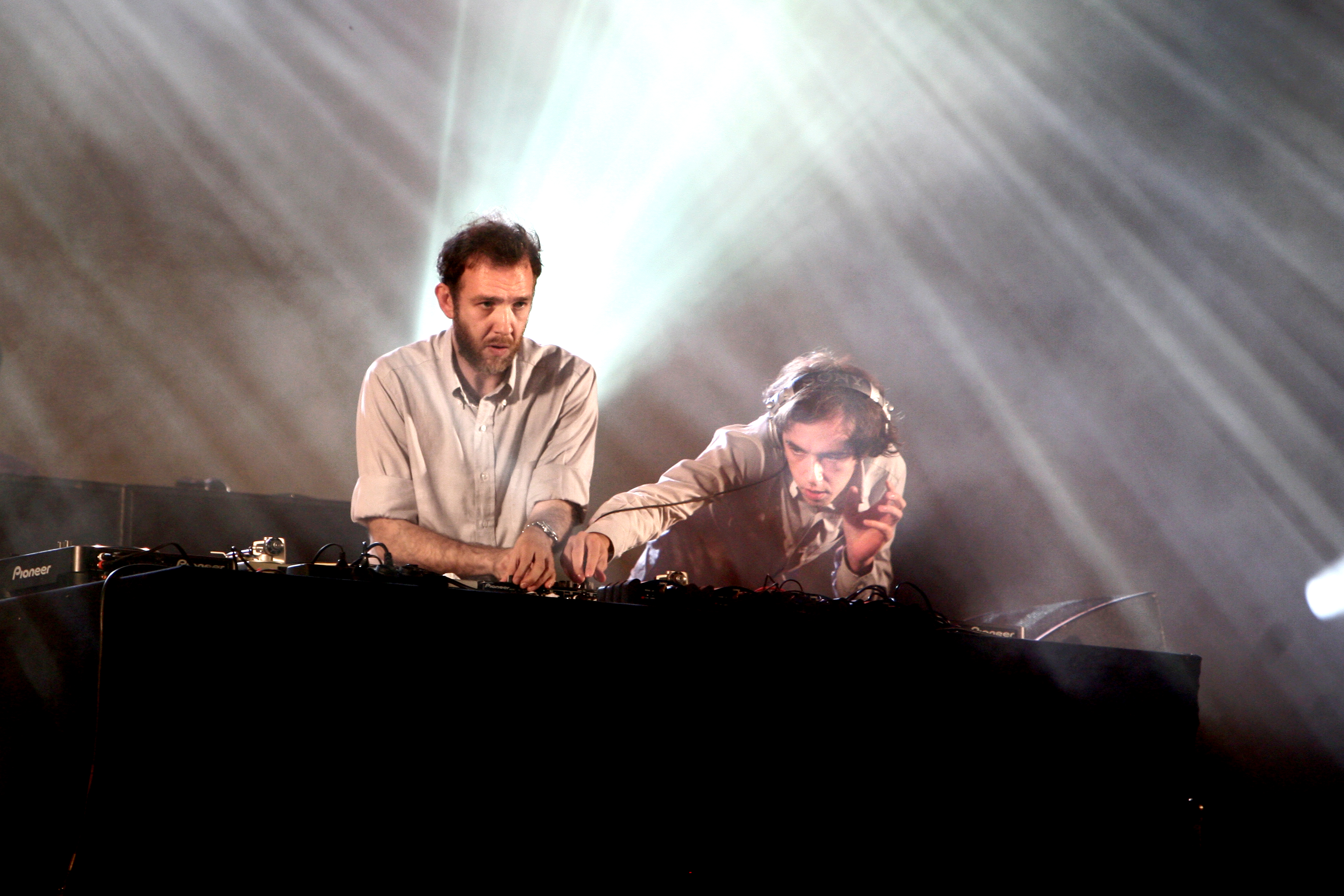 2 Many DJs (Stephen and David Dewaele / Soulwax) at Rock en Seine, August 2007